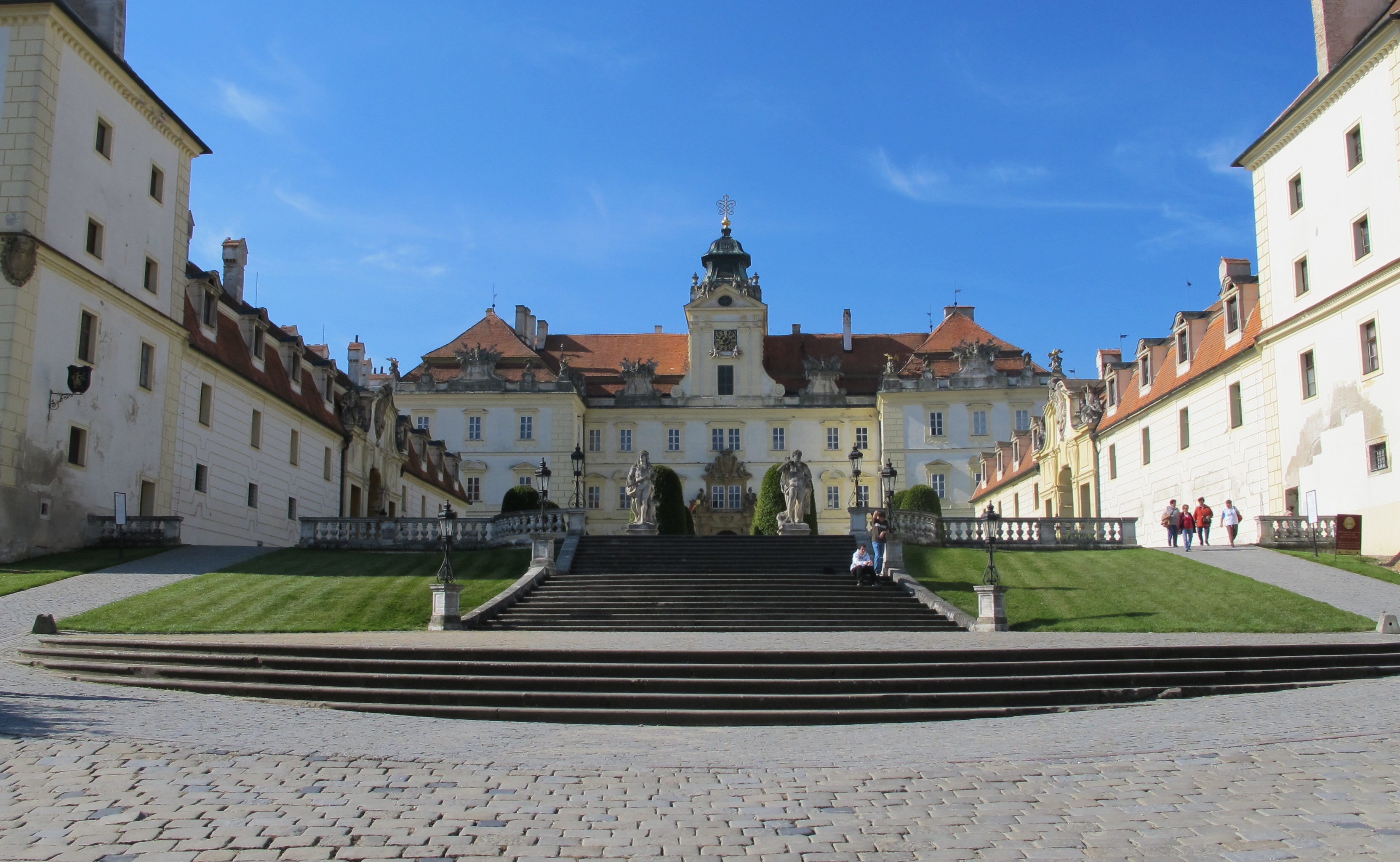 Castle (or chateau) in Valtice, Břeclav District